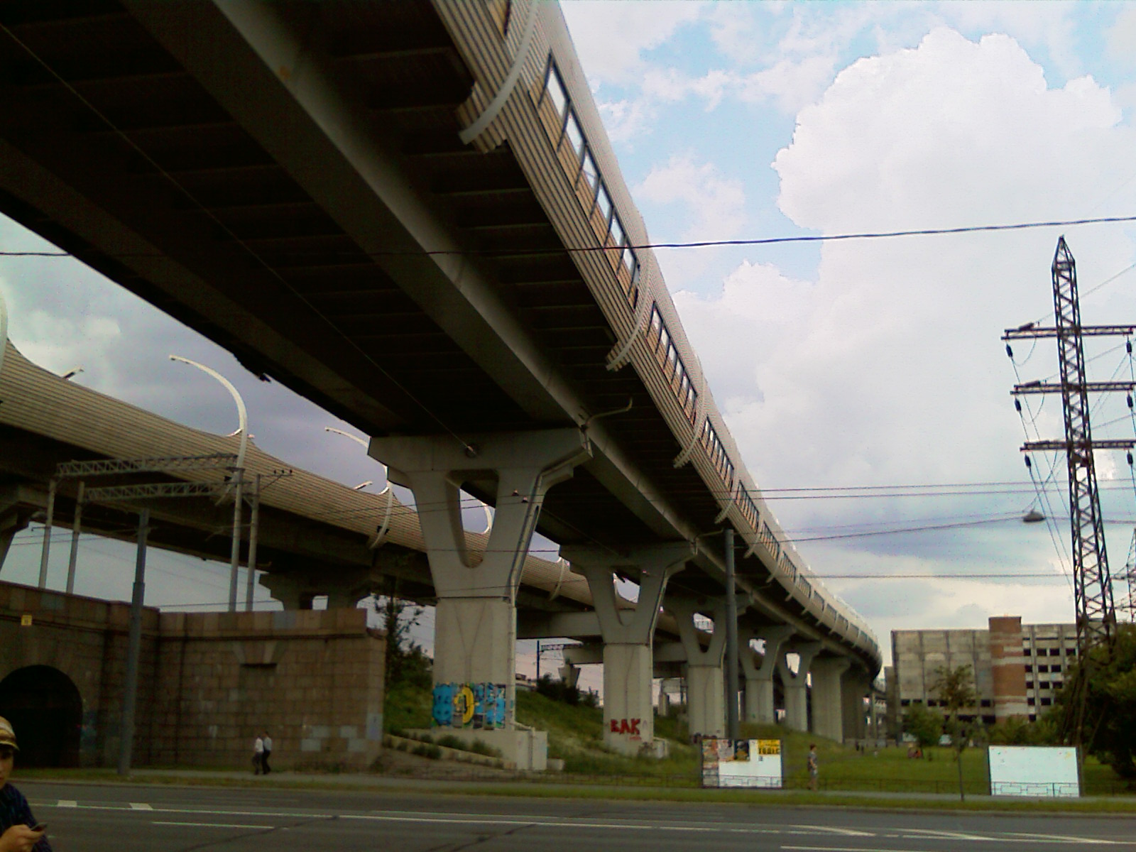 ZSD crossing Stachek Prospekt